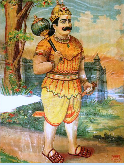 From Baroda Art Gallery